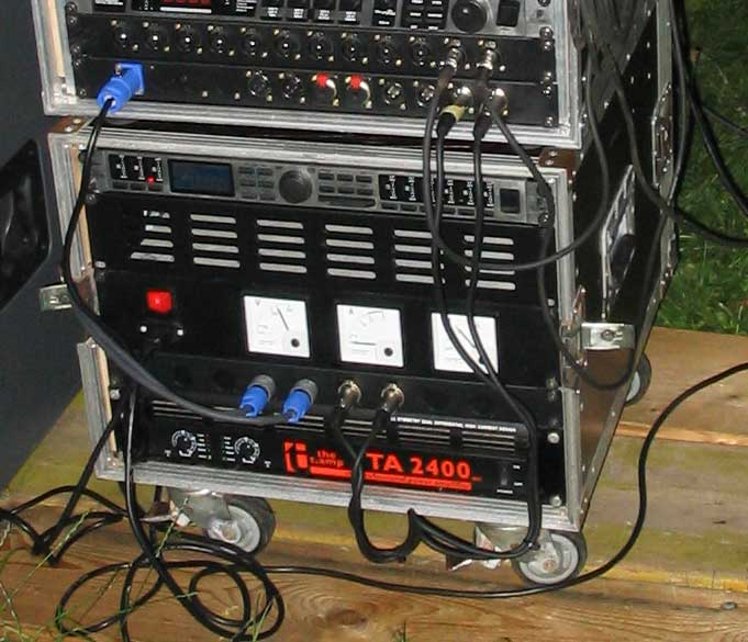 19-inch rack on castors. Includes amplifier, power distribution and speaker controller. Wiesbaden, 08.07.2005